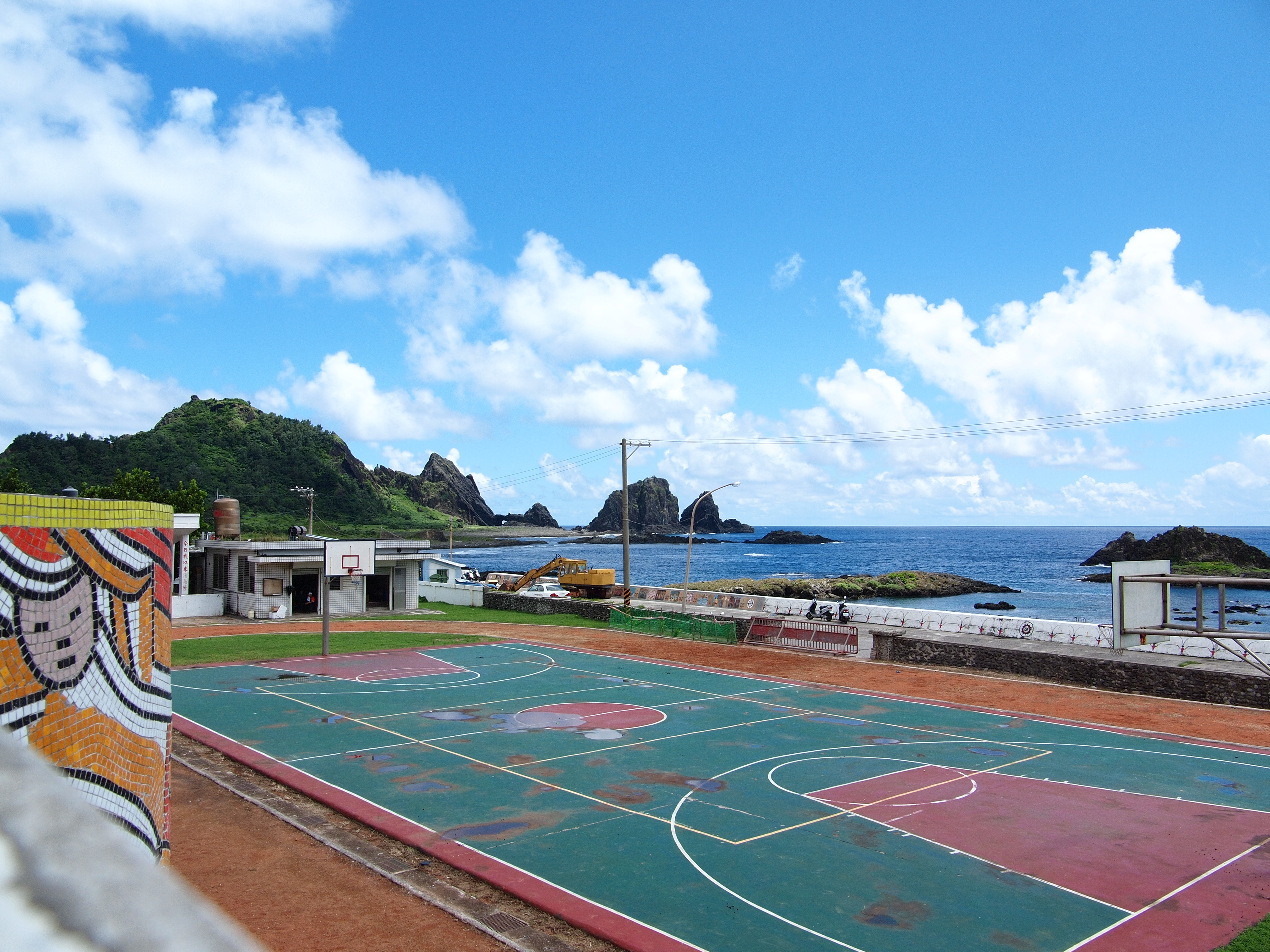 The basketball court of Dong Chin Elementary School in Orchid Island, Taiwan.中文（台灣）: 台東縣蘭嶼鄉東清國小的籃球場。